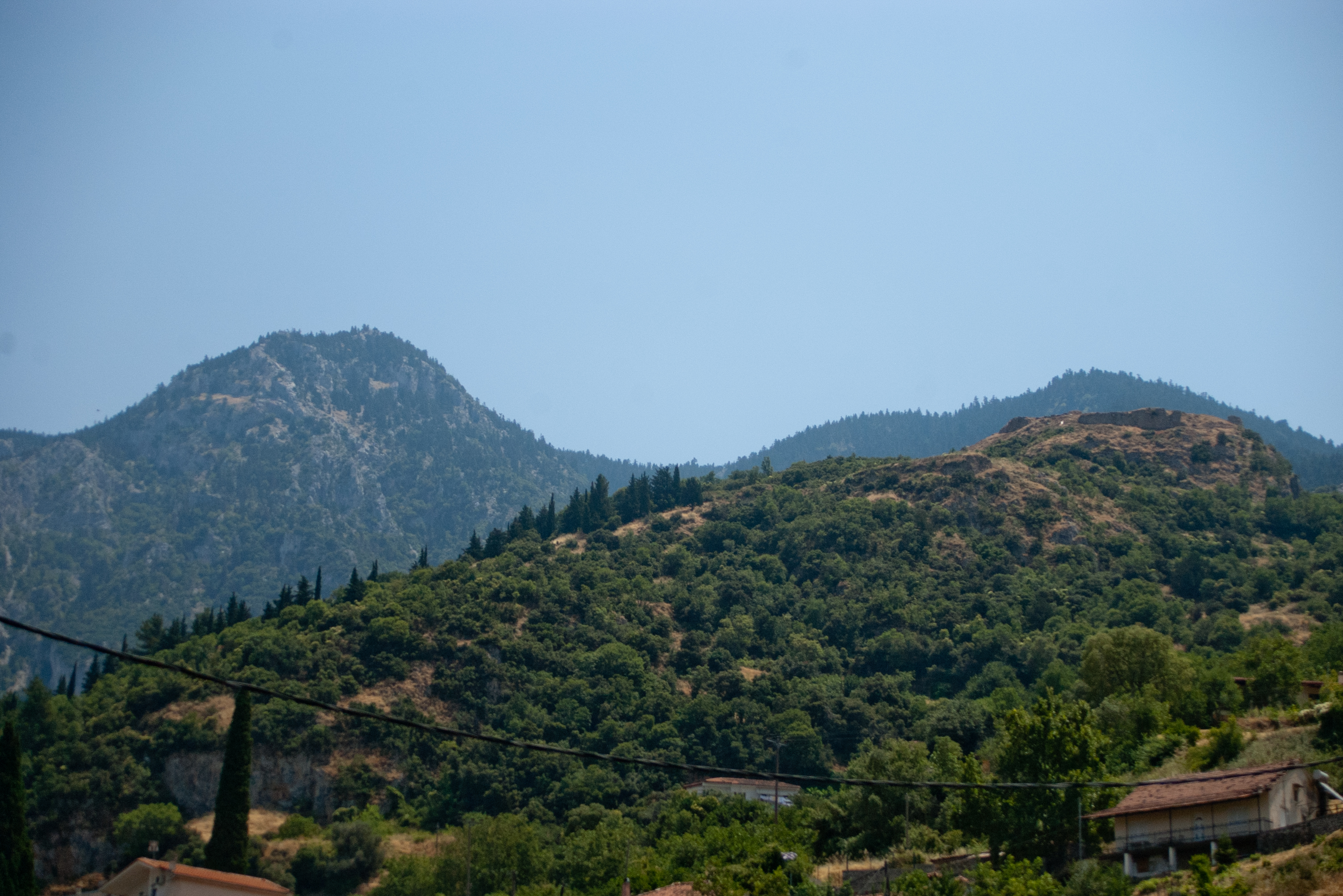 The ancient akropolis of Hypate, modern Ypati, Central Greece. The acropolis was heavily modified during the Genevan and Catalan rule of Greece.